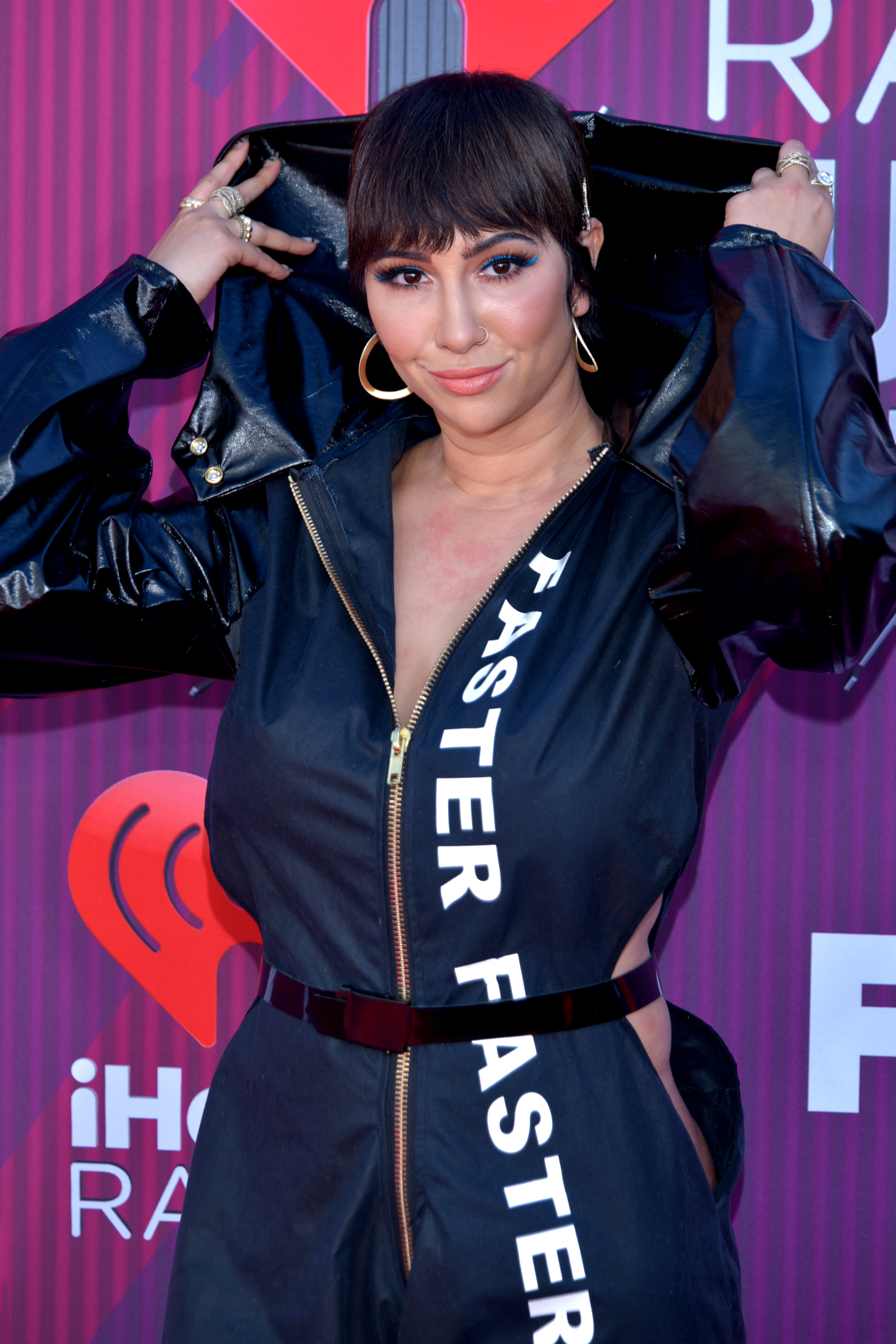 Jackie Cruz at the 2019 iHeartRadio Music Awards in Los Angeles California - Photo by Glenn Francis of